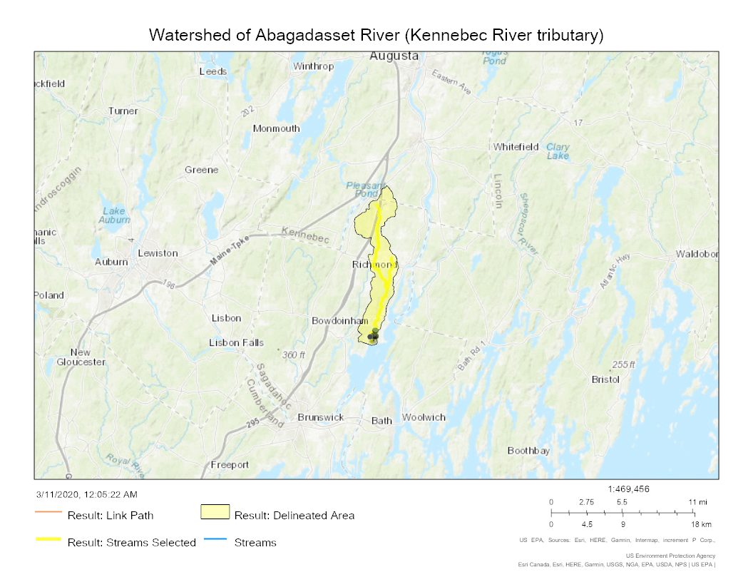 Map of the watershed of Abagadasset River (Kennebec River tributary) in Kennebec and Sagadahoc Counties, Maine.